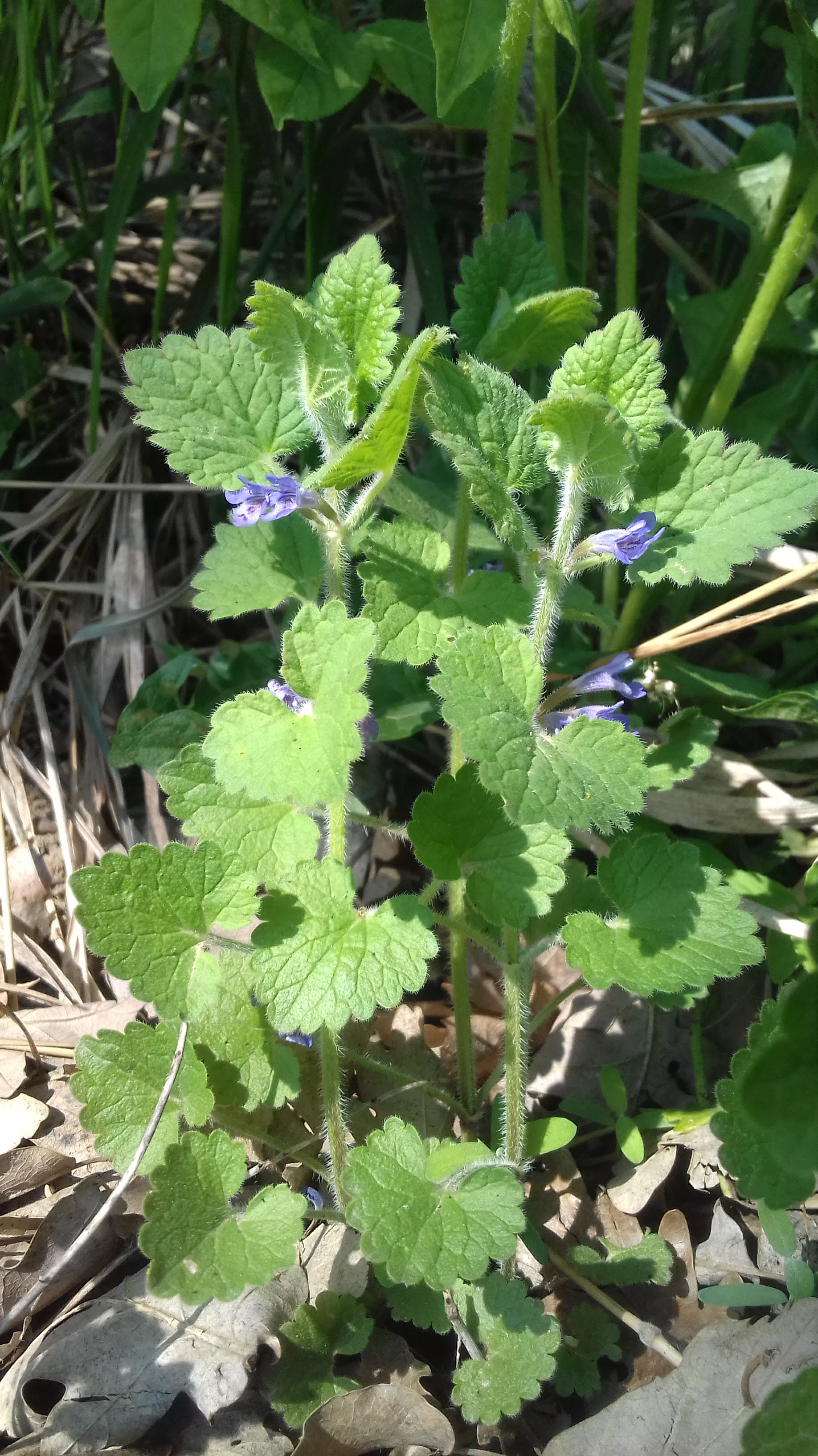 Glechoma hirsuta near Kurdějov, South Moravia Region, CZ, 22 April 2018